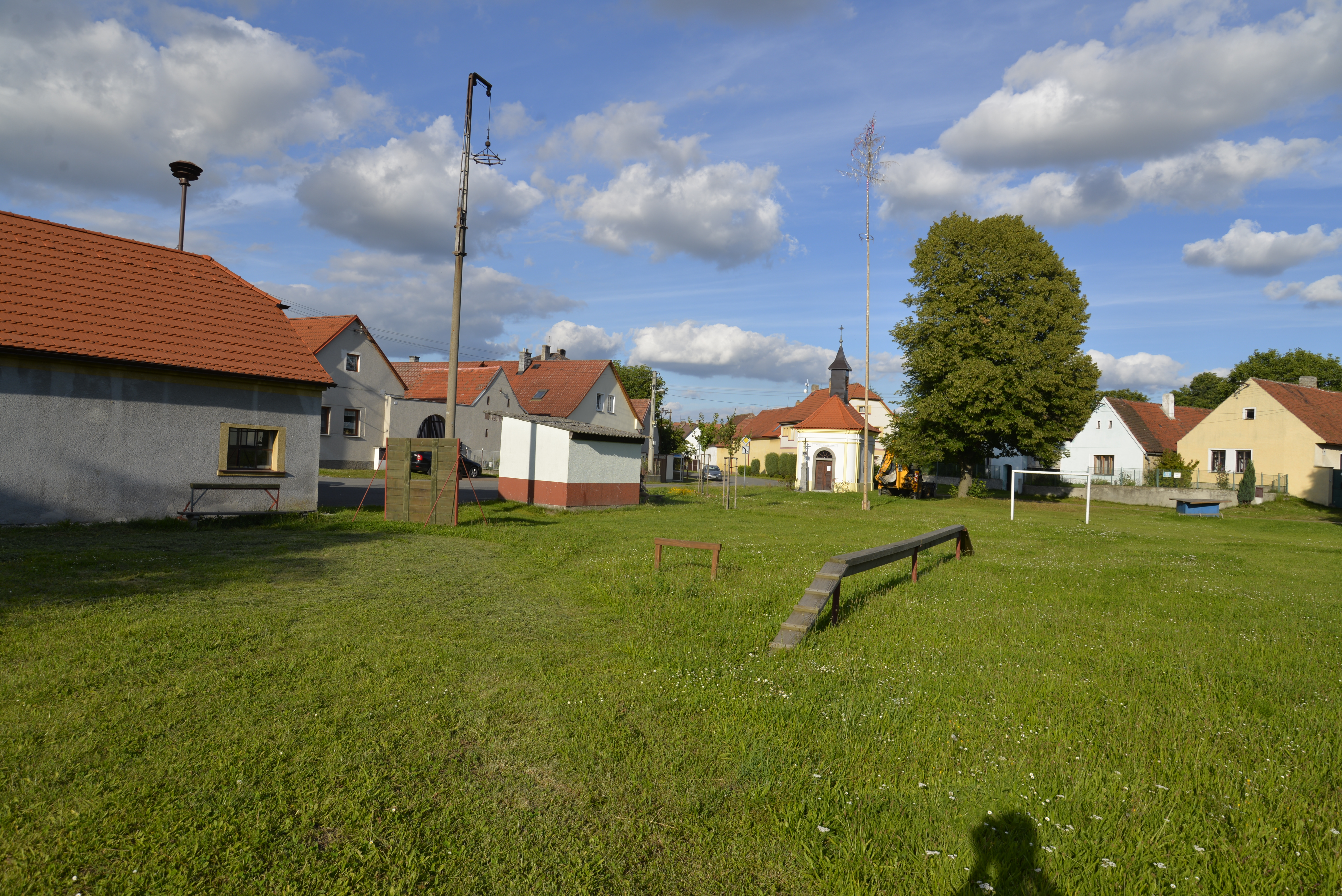 Týnec is a village, part of community Malý Bor in Klatovy District